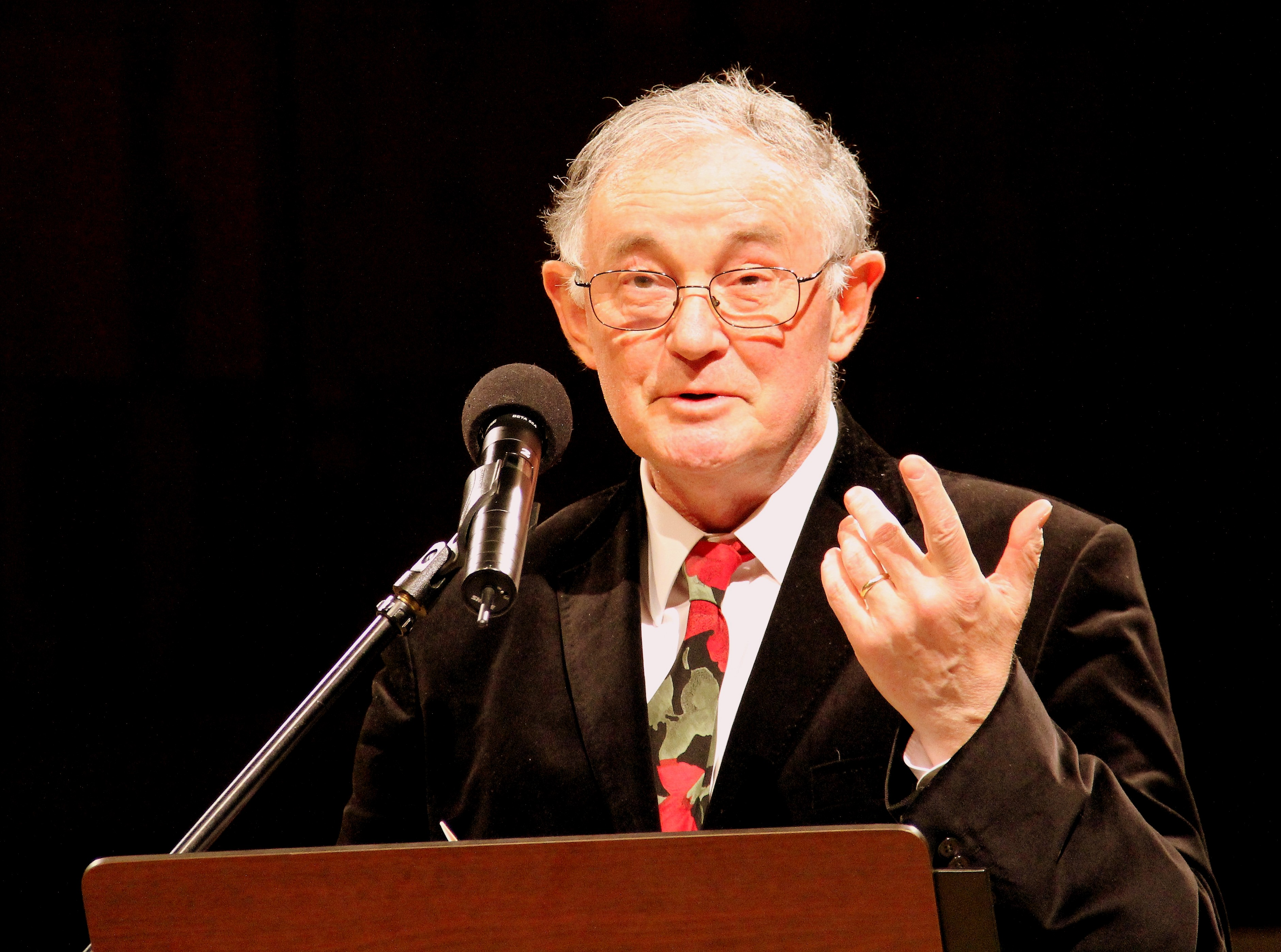 Professor Wiktor Osiatyński